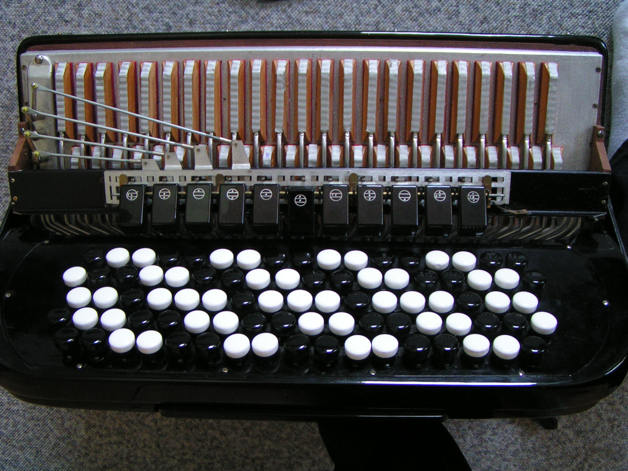 Accordeon. Seen from the right